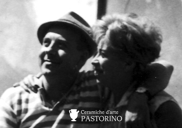 The ceramic artists albisolesi Mario Pastorino and Mirella Fiore founders of the company "Ceramics Pastorino" Albisola Italy